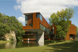 University of Iowa School of Art and Art History, Art Building West (ABW) designed by Steven Holl opened 2006.